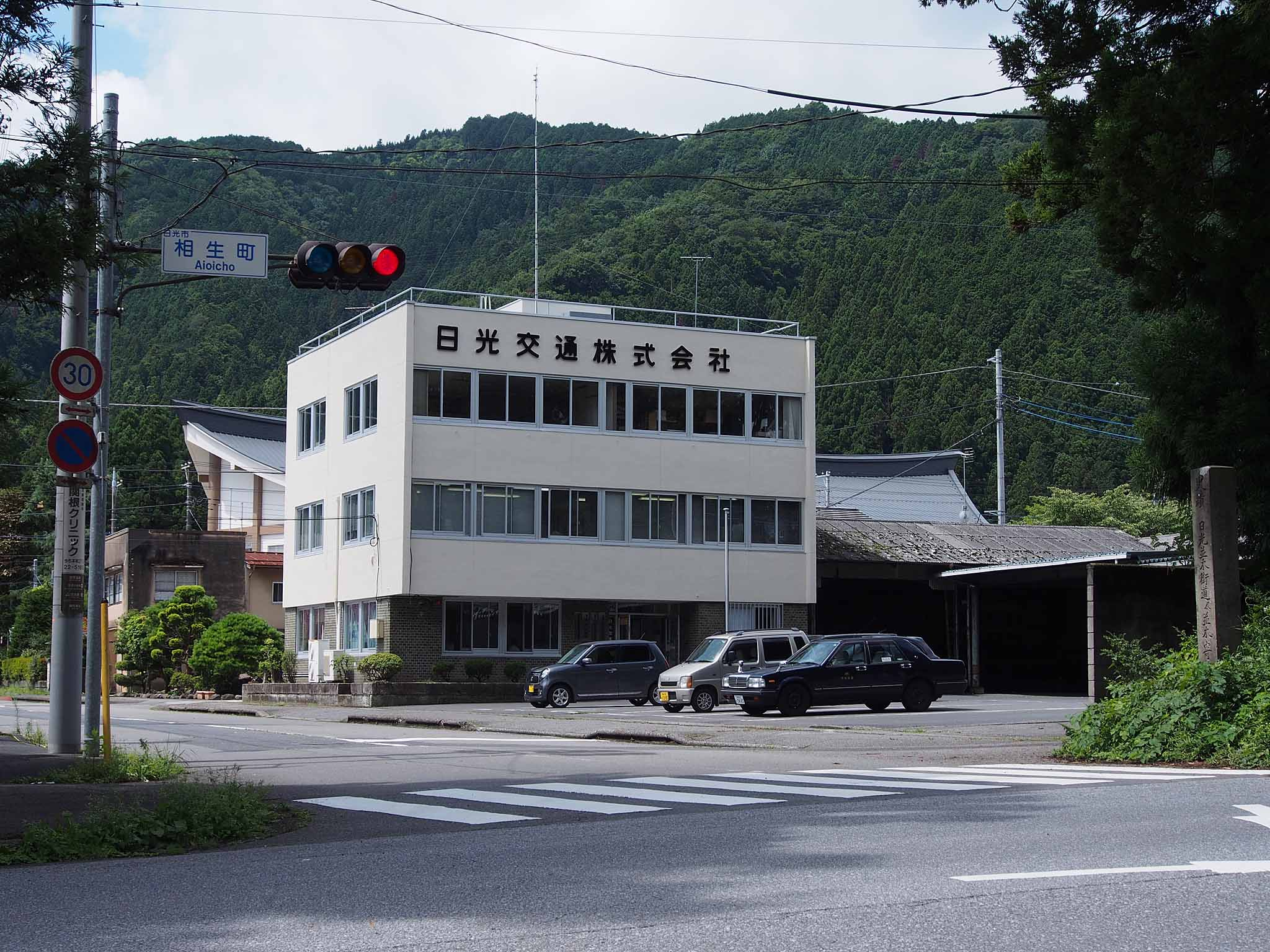 Head office and Nikko Dept of Nikko Kotsu, taxi operator of Tobu Group in Nikko area.